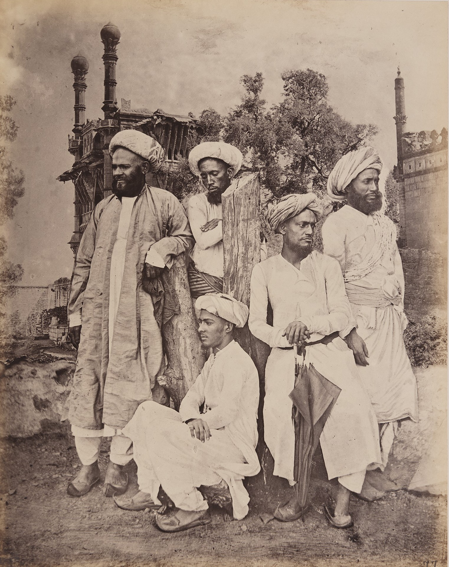 Title: Mehmans Alternative Title: [Memons] Creator: Johnson, William Date: ca. 1855-1862 Part Of: Photographs of Western India Series: Photographs of Western India. Volume I. Costumes and Characters. Place: India Physical Description: 1 photographic print: albumen; 26 x 20 cm on 42 x 35 cm mount File: vault_ag2002_1407x_1_077_mahmans_opt.jpg Rights: Please cite Southern Methodist University, Central University Libraries, DeGolyer Library when using this image file. A high-quality version of this file may be obtained for a fee by contacting . For more information, see: View Europe, India, and Asia: Photographs, Manuscripts, and Imprints